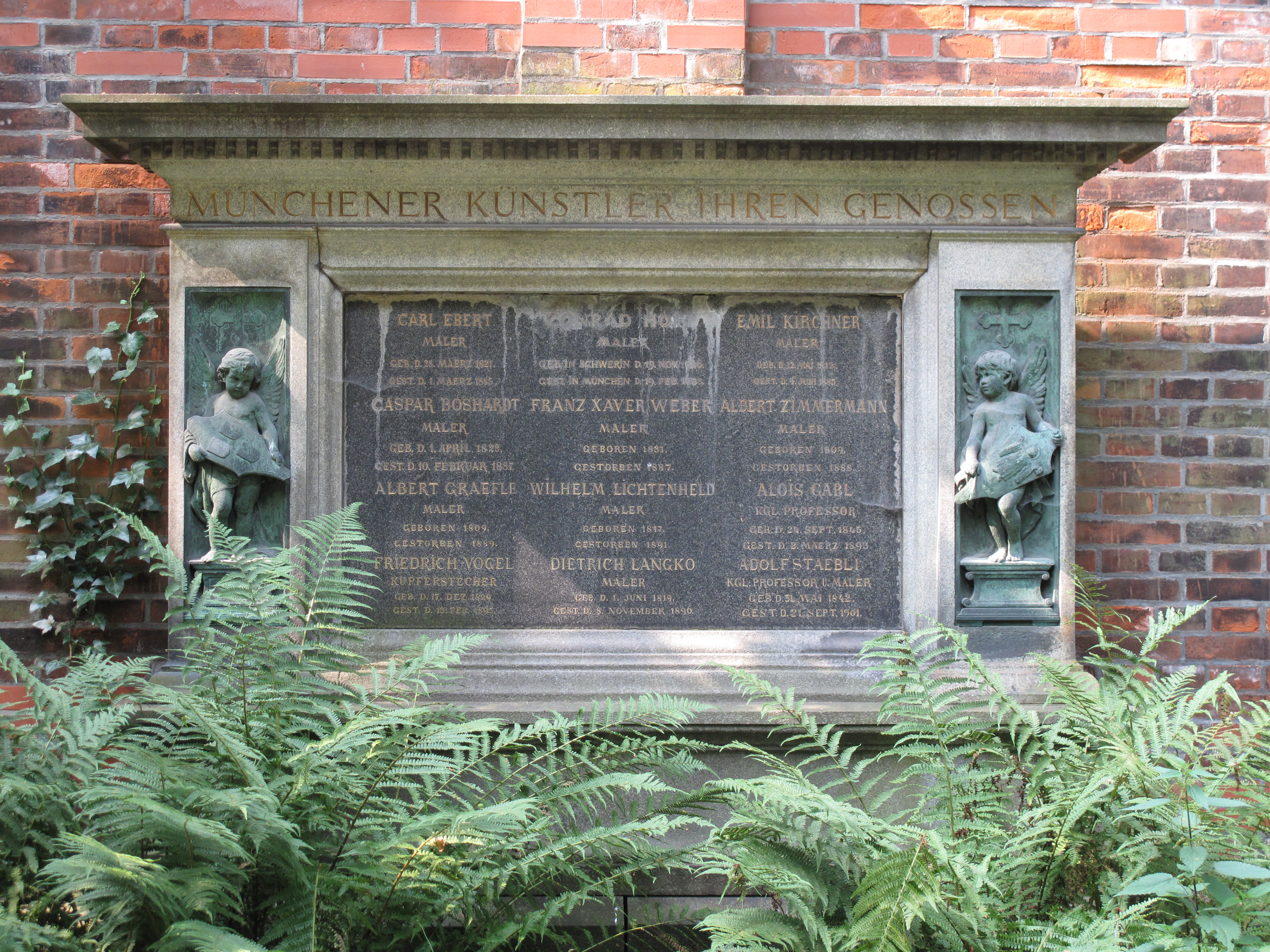 The old northern cemetery (Alter Nordfriedhof) in Munich (Maxvorstadt).